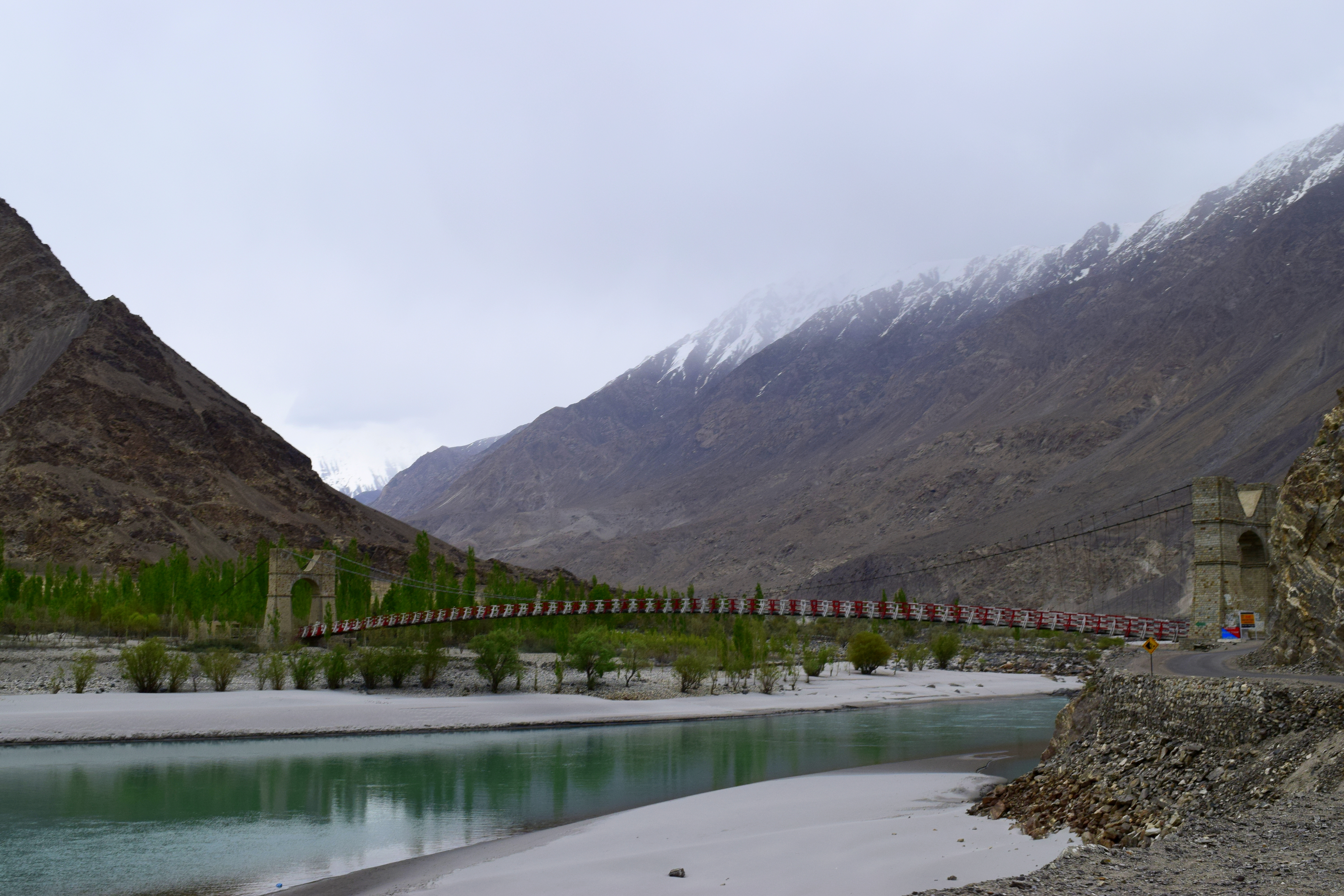 Skardu